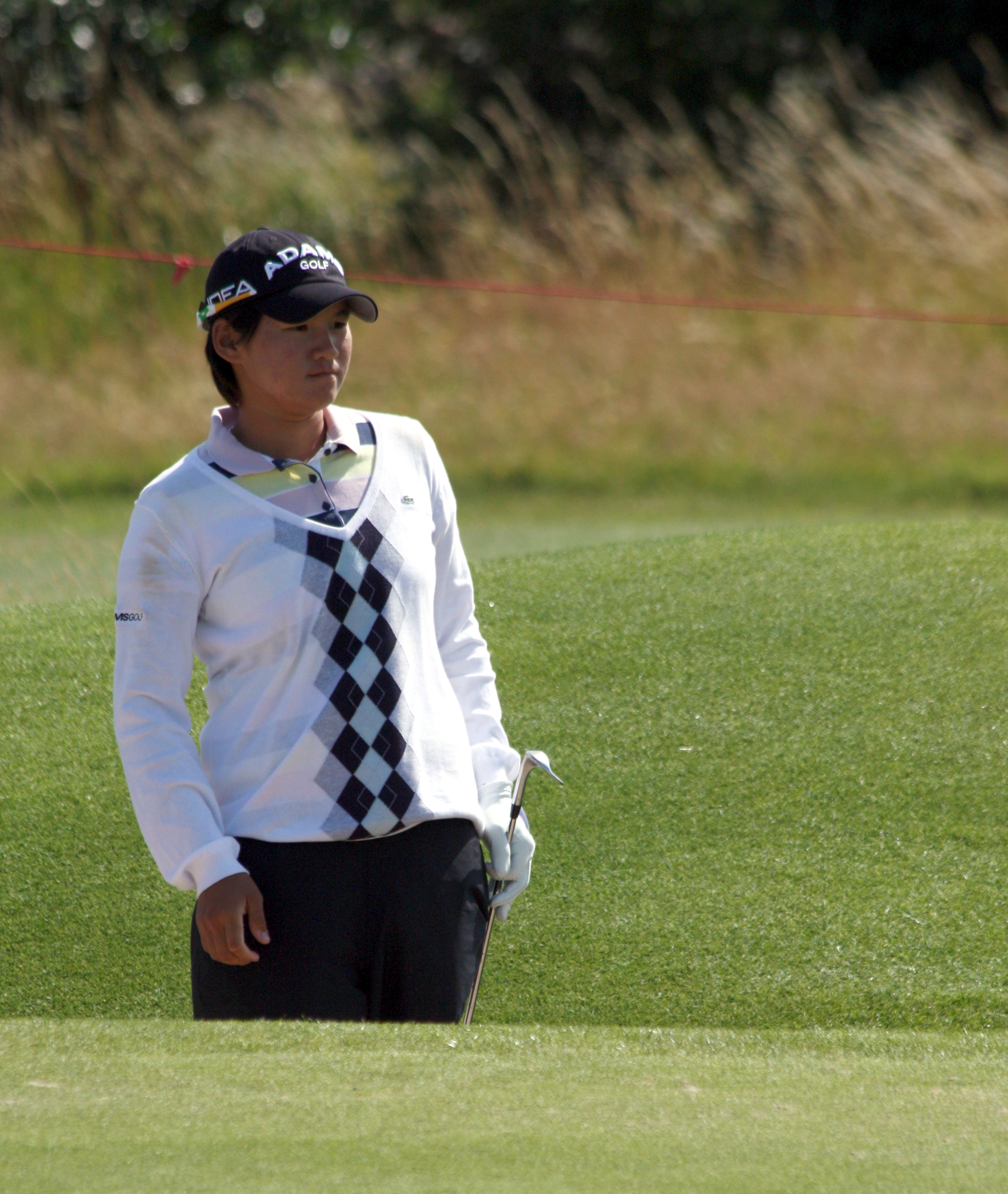 LYTHAM ST ANNES, UNITED KINGDOM - JULY 27: Yani Tseng of Taiwan hits out of the bunker at the 2nd green during first practice round before 2009 Ricoh Women's British Open held at Royal Lytham & St Annes on July 27, 2009 in Lytham St Annes, England. (Photo by Wojciech Migda)